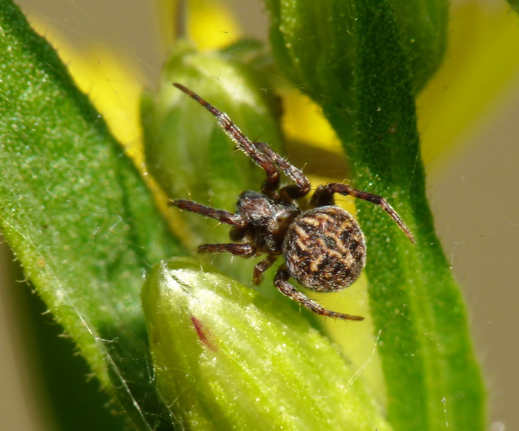 Spider Agalenatea redii, near Livorno, Tuscany, Italy